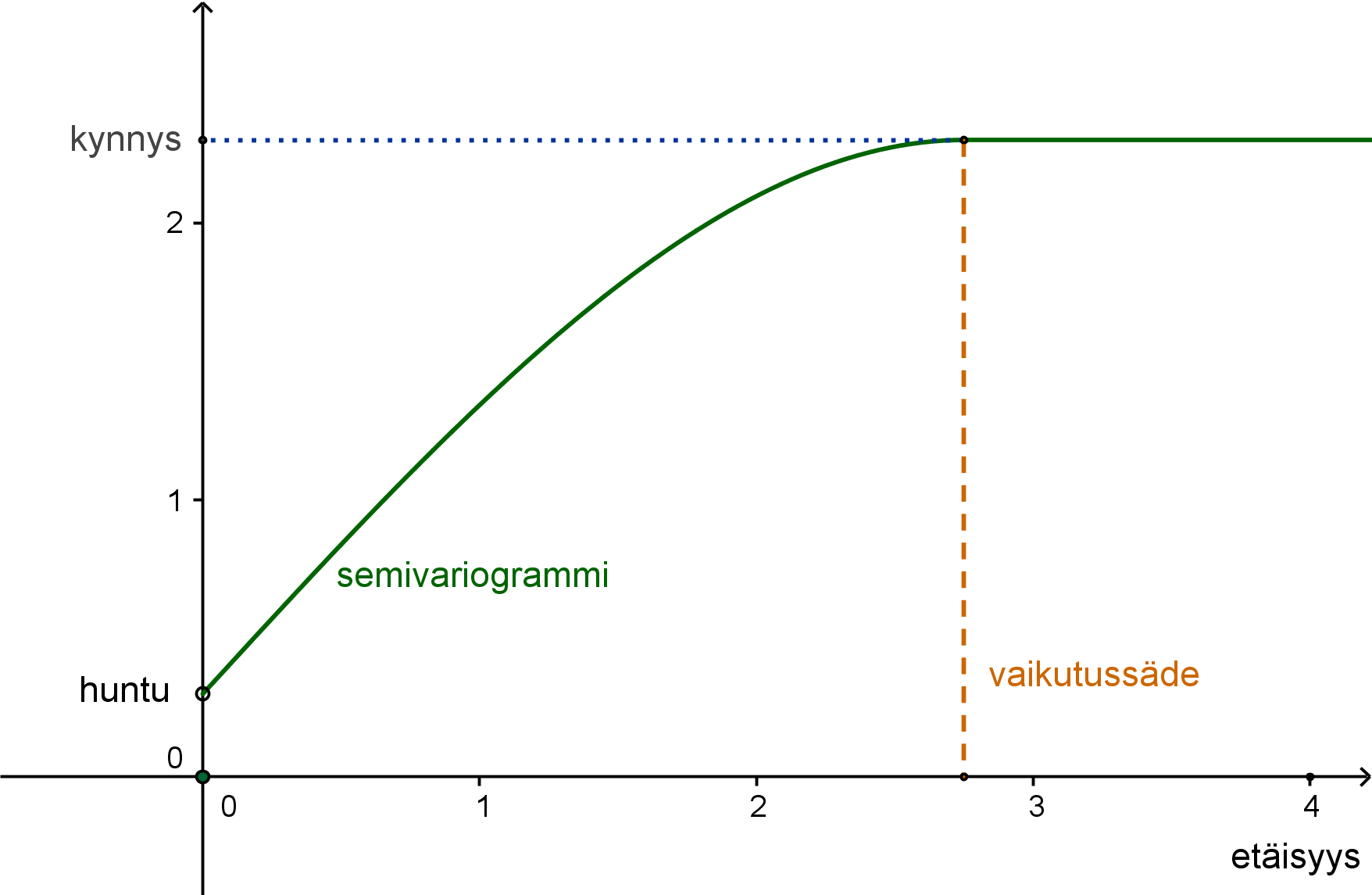 semivarigram function